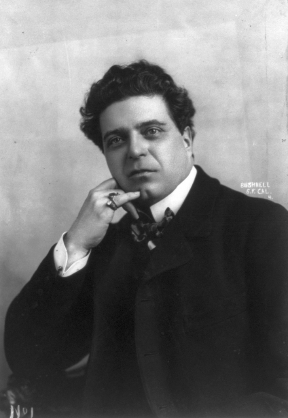 Pietro Mascagni (1863-1945), Italian composer.